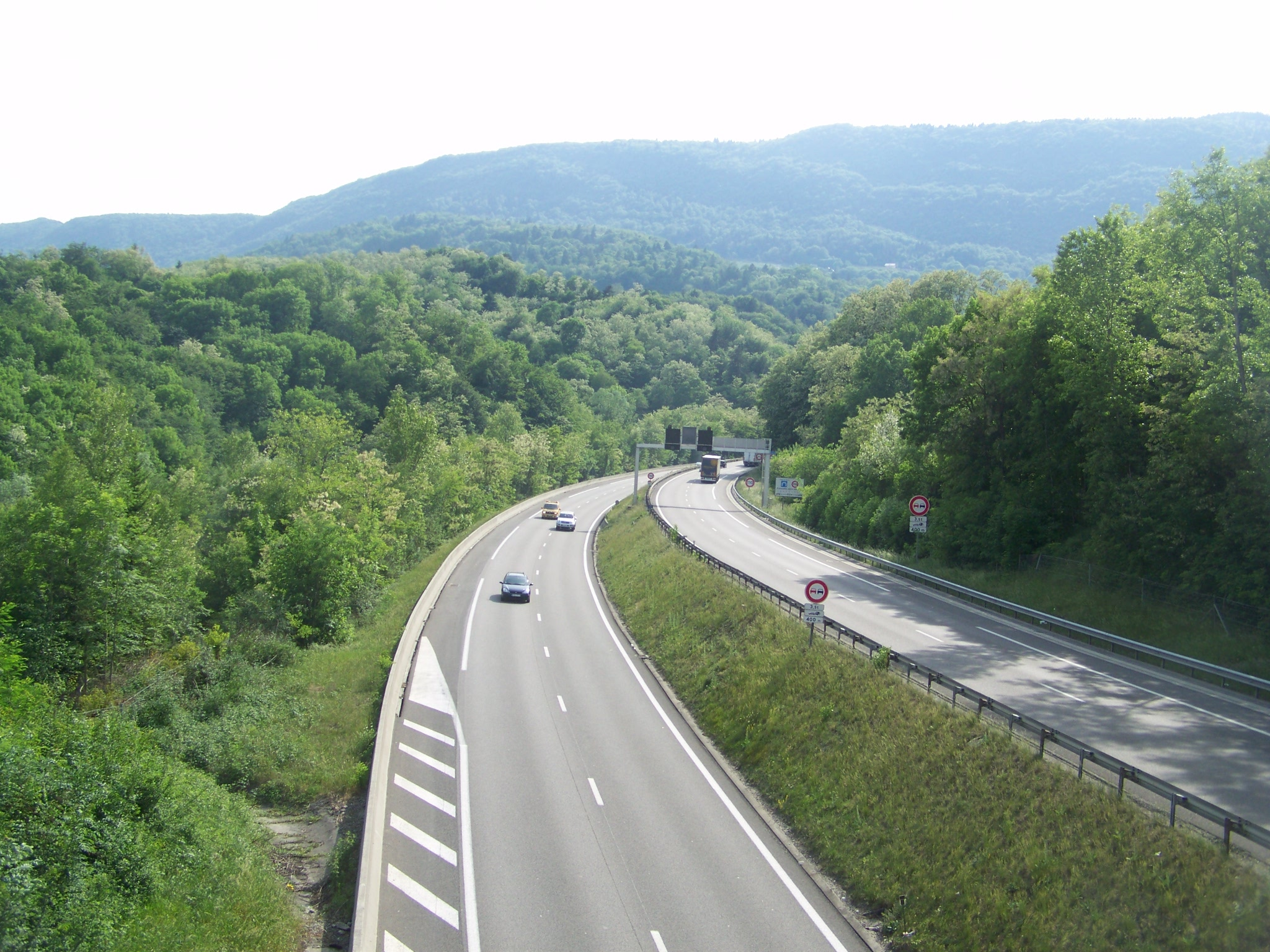 Picture of French motorway A43 soon entering in the Épine tunnel near Chambéry in Savoie, France.